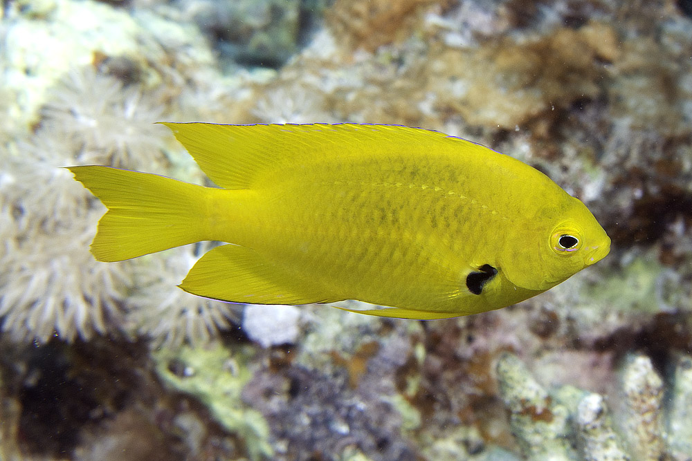 Pomacentrus sulfureus, Egypt.